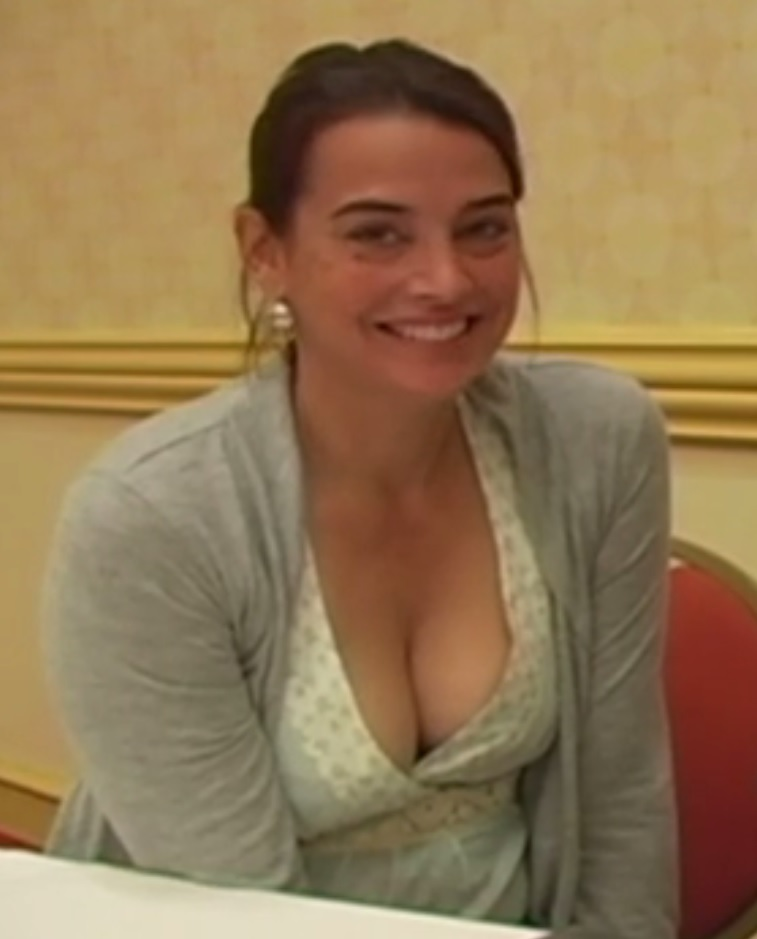 American actress and model Jennifer Rubin, star of "Nightmare on Elm Street 3", interviewed by Mark J. Goss for Count Gore De Vol, at approximately 0:04.